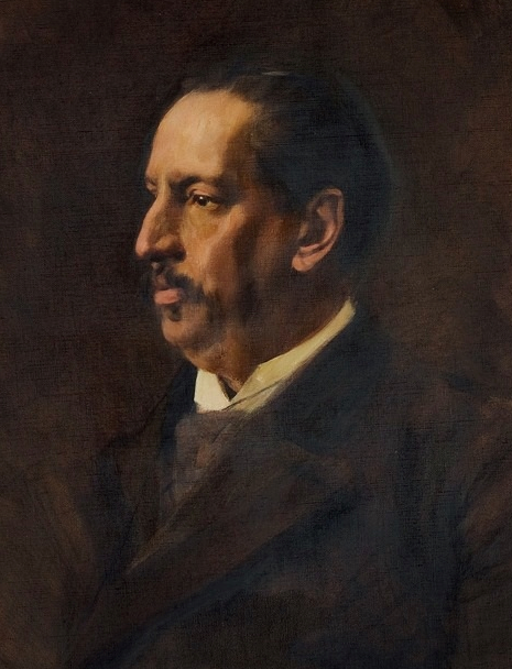 Portrait of Barjona de Freitas (1834-1900), by Columbano Bordalo Pinheiro.